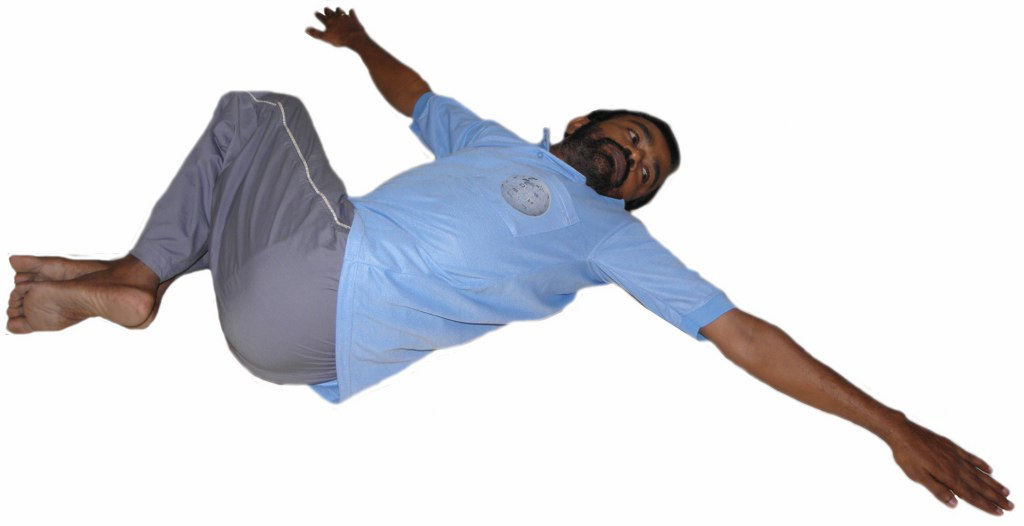 Waist Rotating Pose